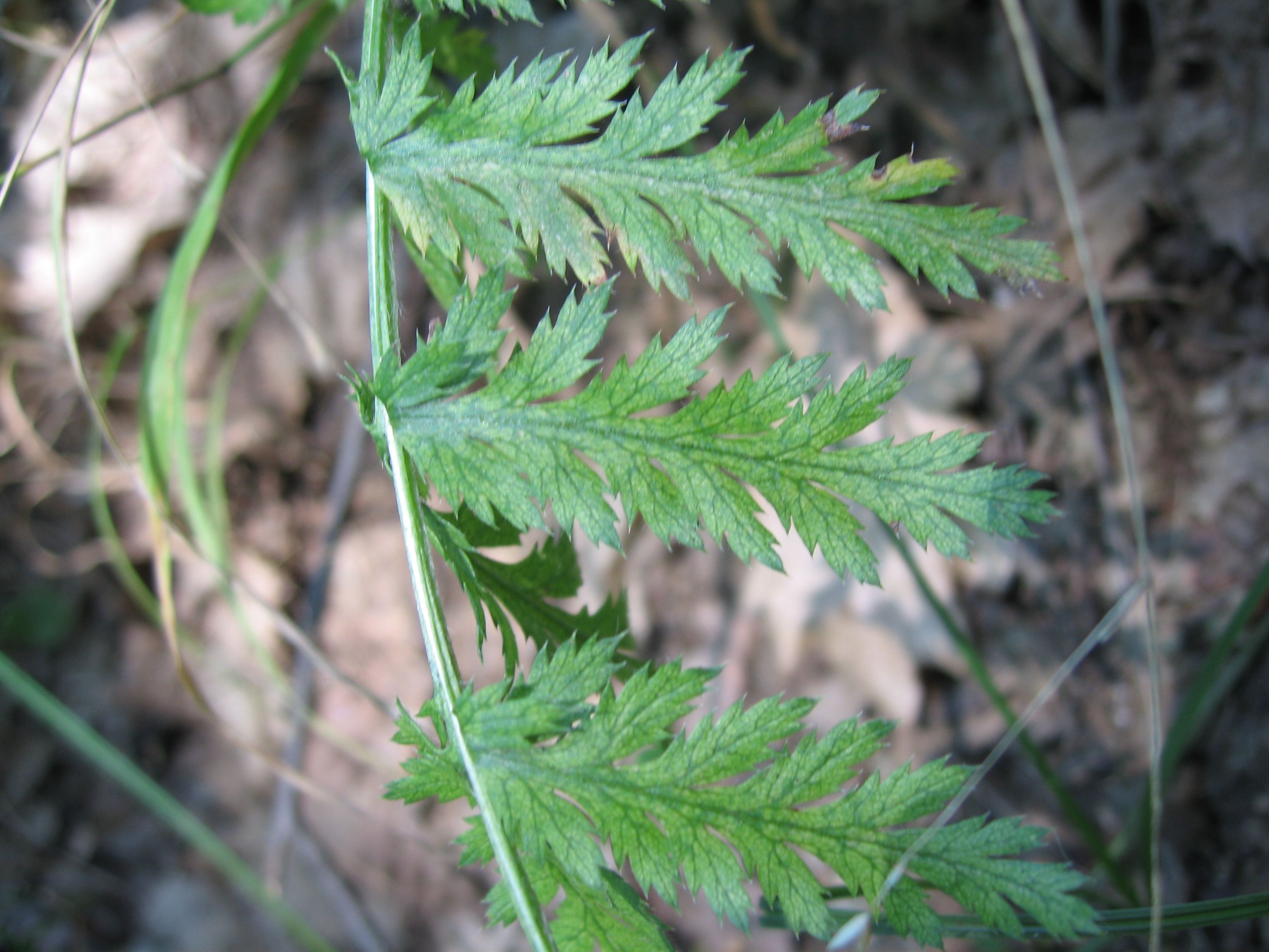 Tanacetum corymbosum leaf closeup